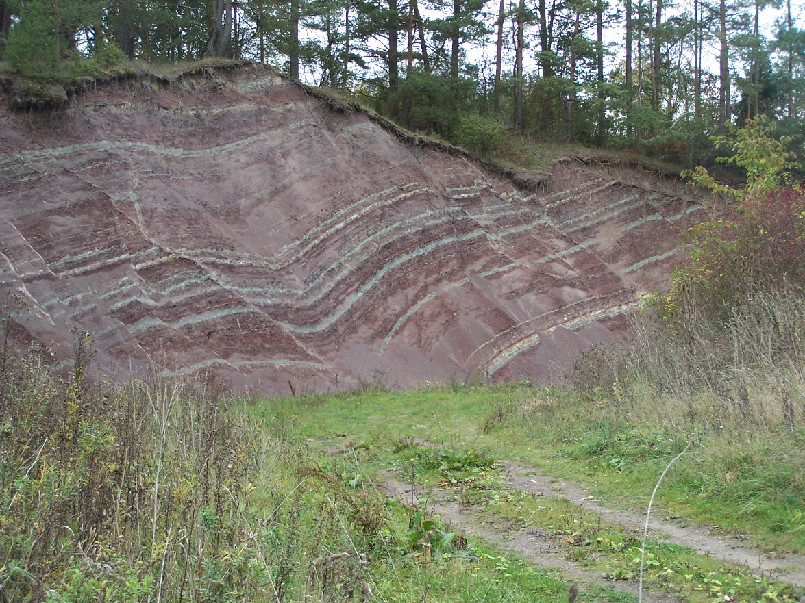 A geological window - a former quarry for grit at Hohleite.